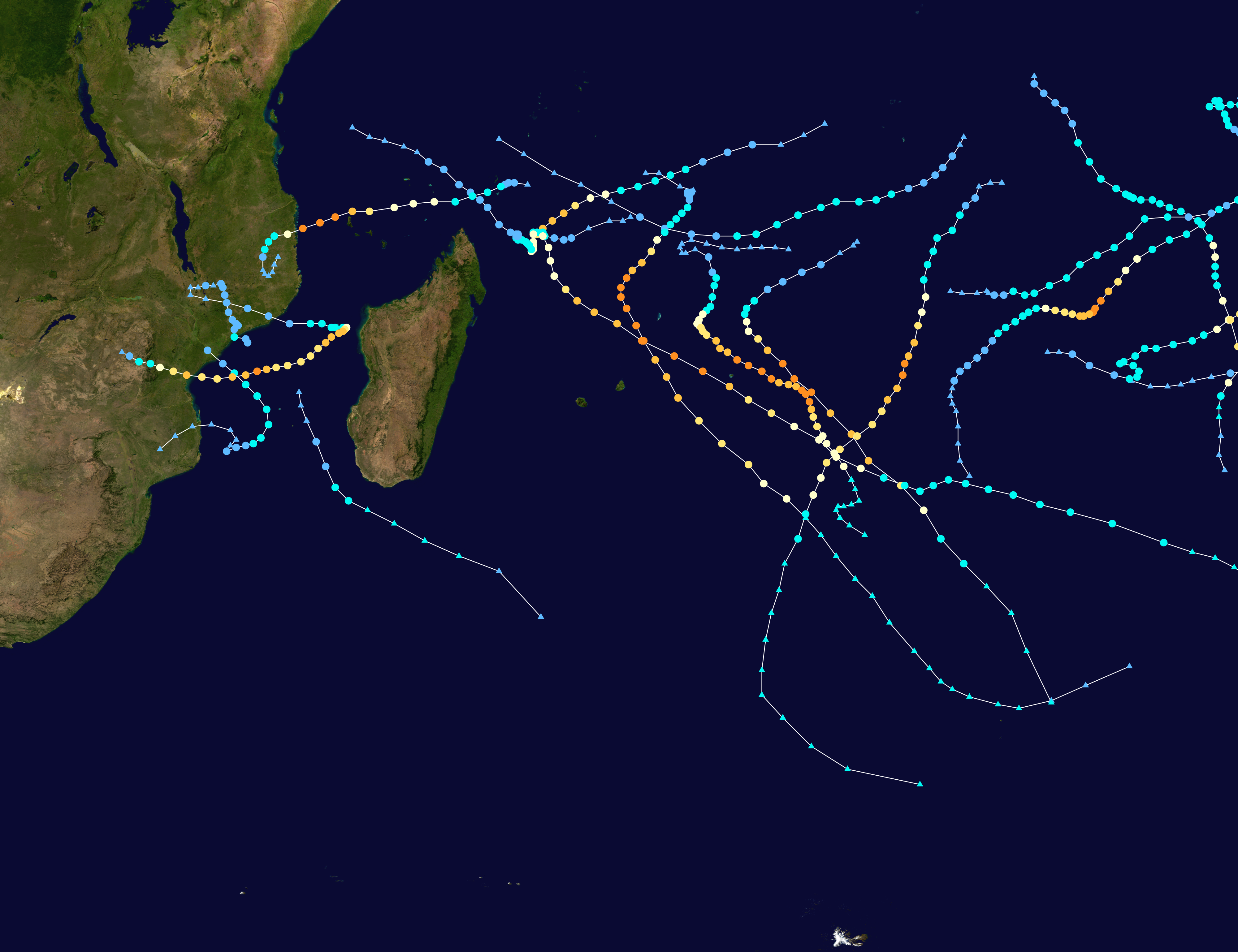 This map shows the tracks of all tropical cyclones in the 2018-19 South-West Indian Ocean cyclone season. The points show the location of each storm at 6-hour intervals. The colour represents the storm's maximum sustained wind speeds as classified in the Saffir-Simpson Hurricane Scale (see below), and the shape of the data points represent the type of the storm. Saffir–Simpson scale Tropical depression≤38 mph≤62 km/h Category 3111–129 mph178–208 km/h Tropical storm39–73 mph63–118 km/h Category 4130–156 mph209–251 km/h Category 174–95 mph119–153 km/h Category 5≥157 mph≥252 km/h Category 296–110 mph154–177 km/h Unknown Storm type Tropical cyclone Subtropical cyclone Extratropical cyclone / Remnant low / Tropical disturbance / Monsoon depression